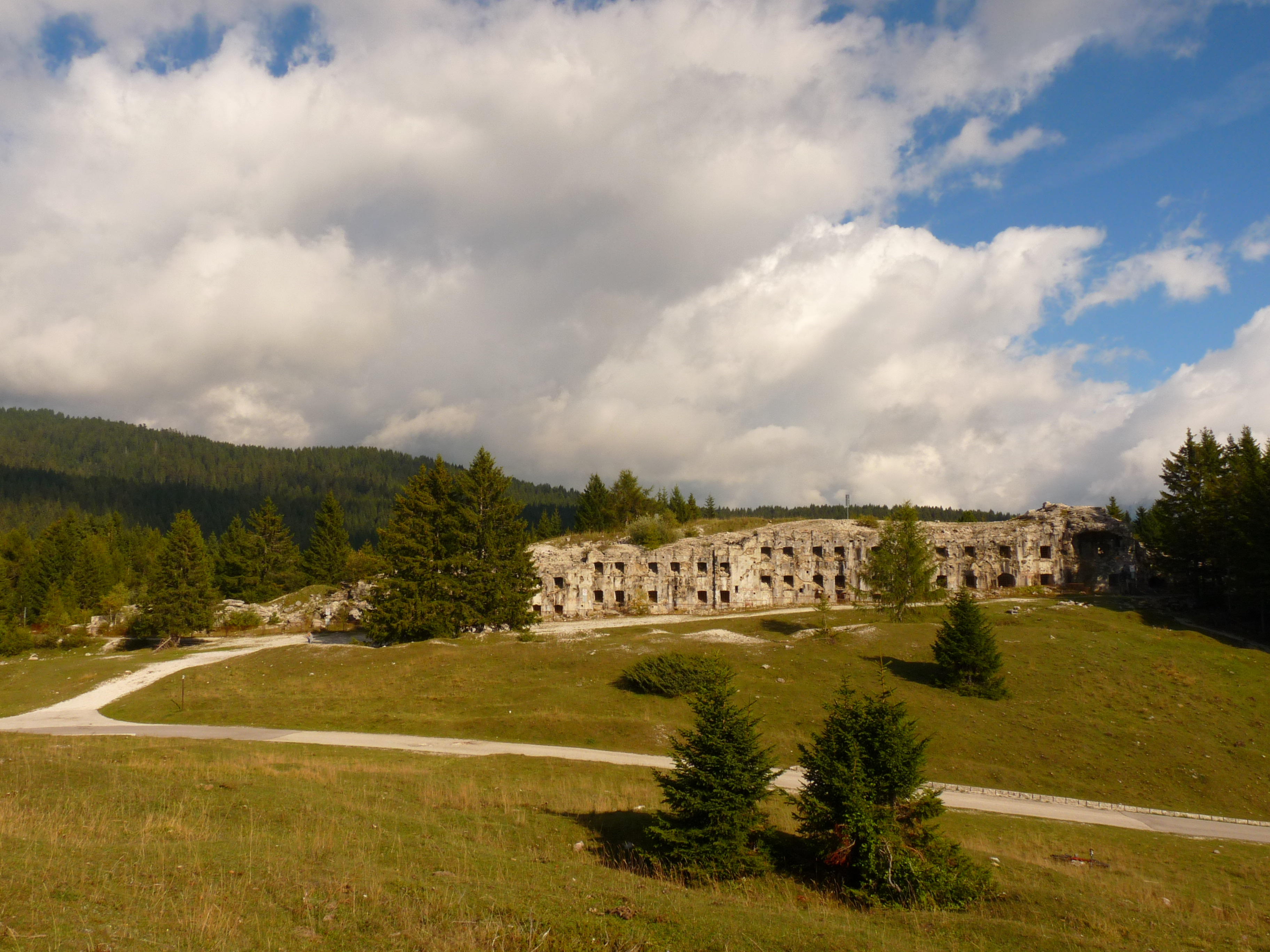 Levico Terme (Italy): view of the western side of Forte Verle (Werk Verle) near Passo Vezzena